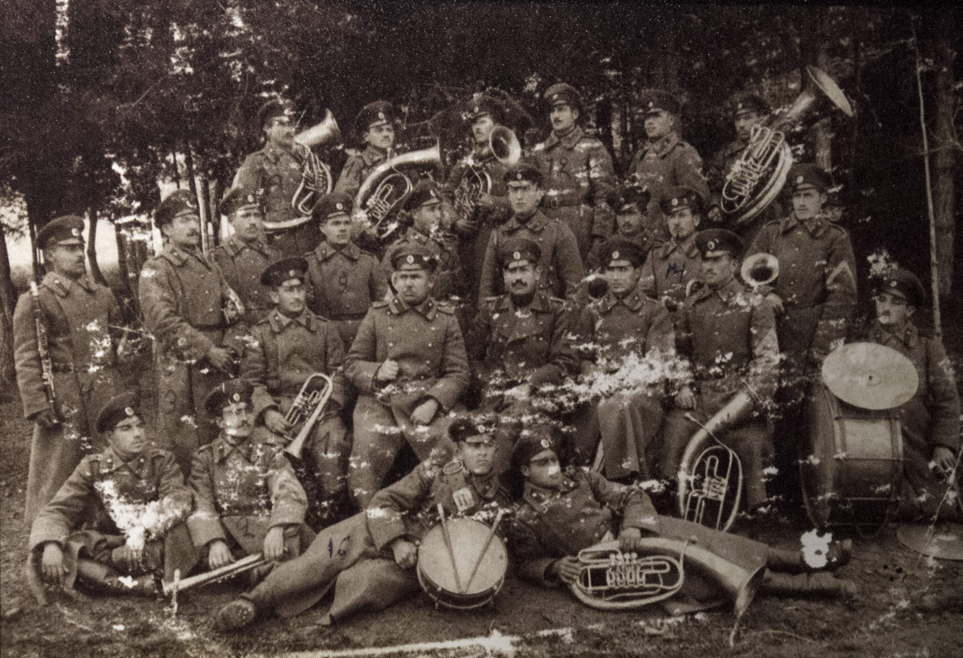 This photo was uploaded during the creation of the first wikitown in Bulgaria – WikiBotevgrad.